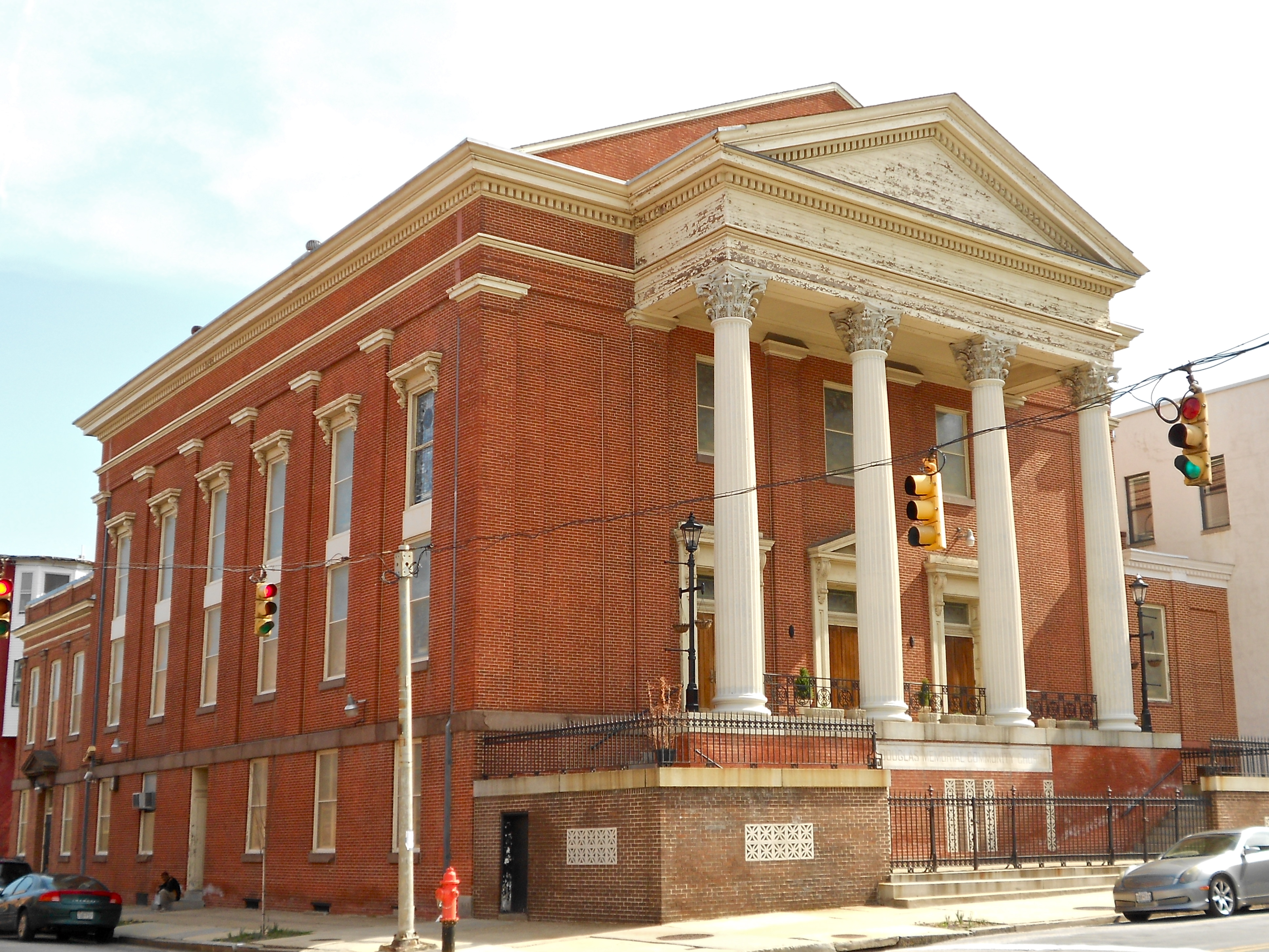 Madison Avenue Methodist Episcopal Church on the NRHP since September 4, 1992. At 1327 Madison Ave. in central Baltimore, Maryland.